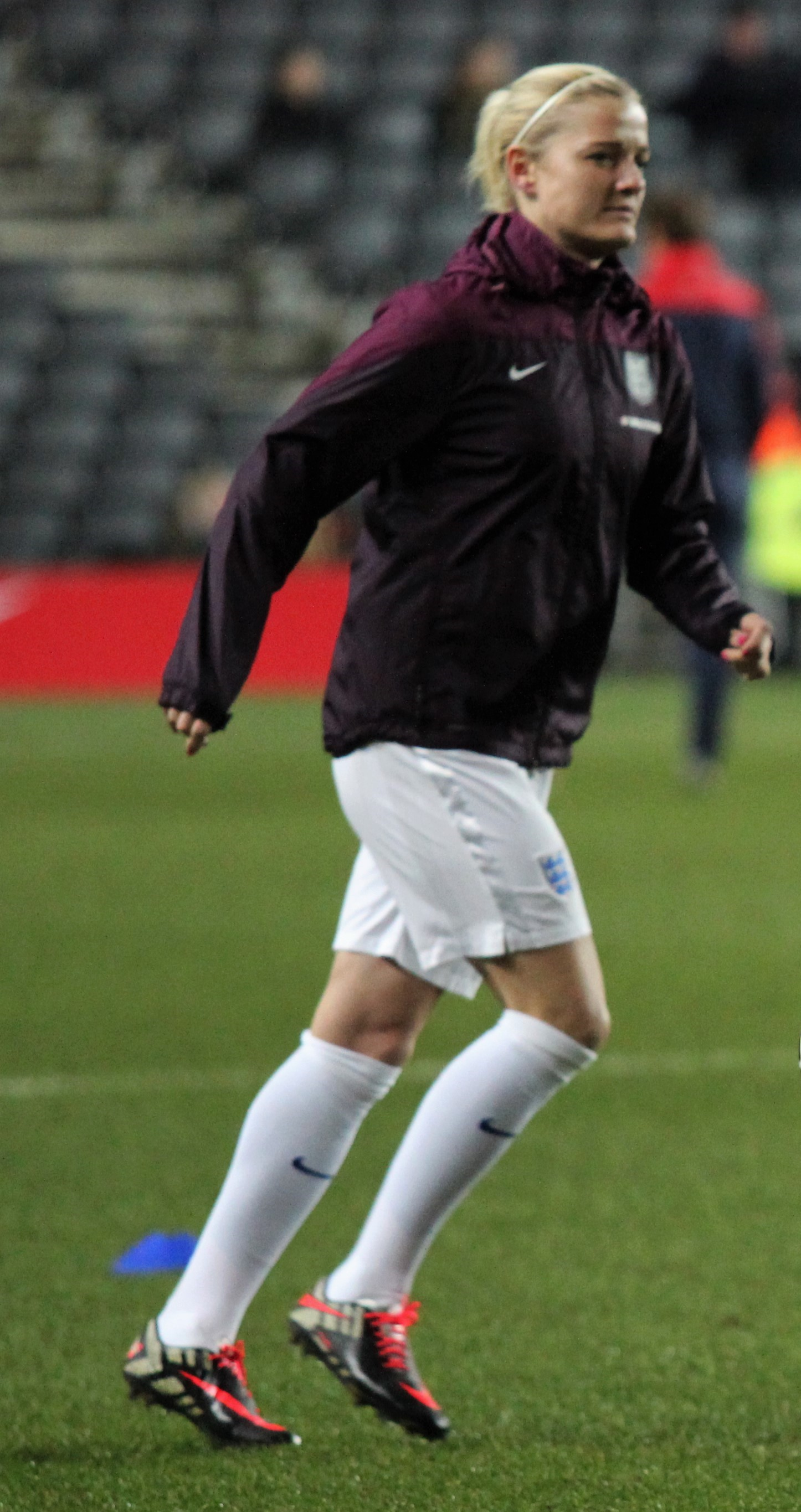 Lianne Sanderson of England Women's before the international friendly against USA.